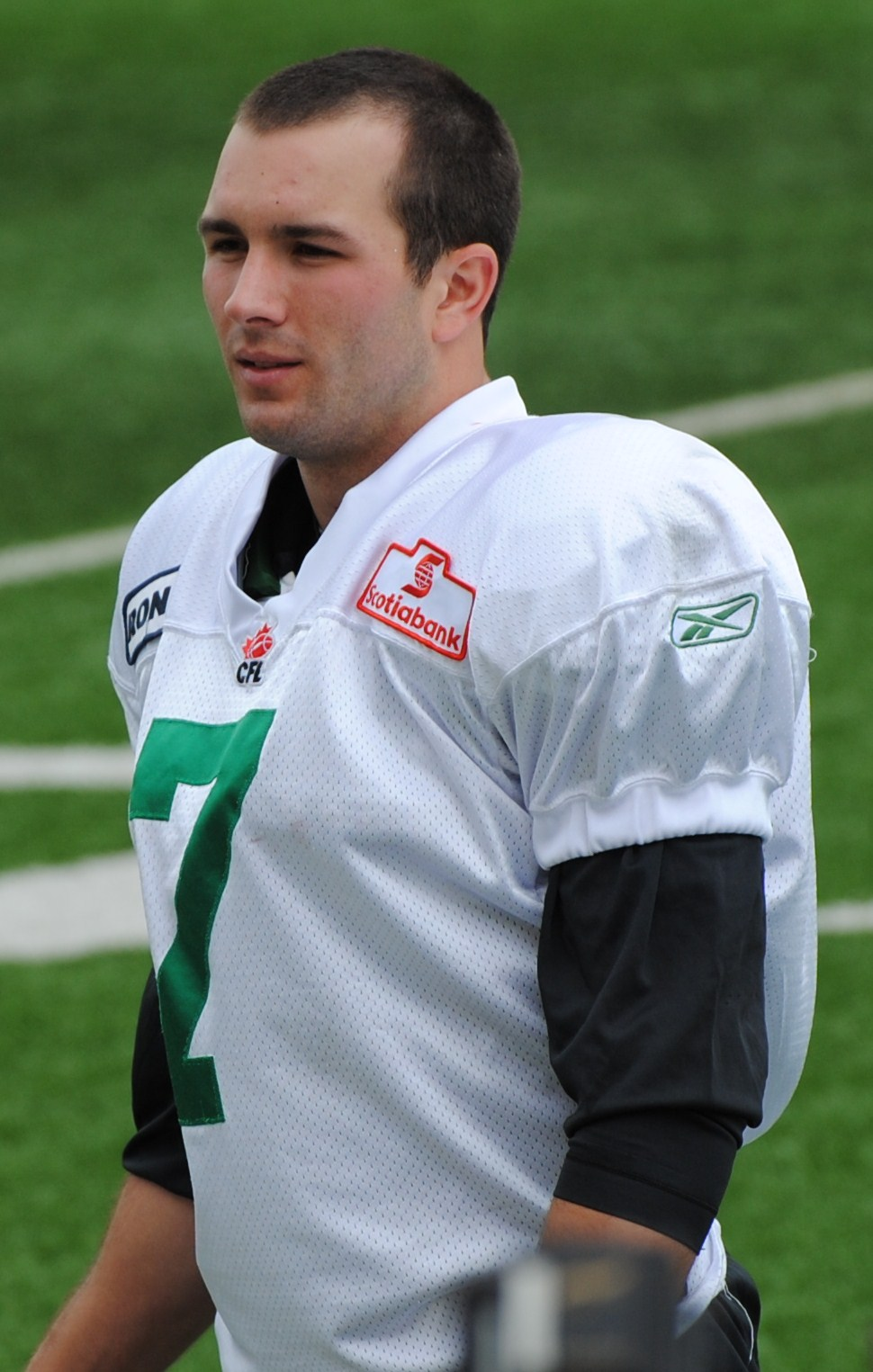 Weston Dressler after a Saskatchewan Roughriders practice.